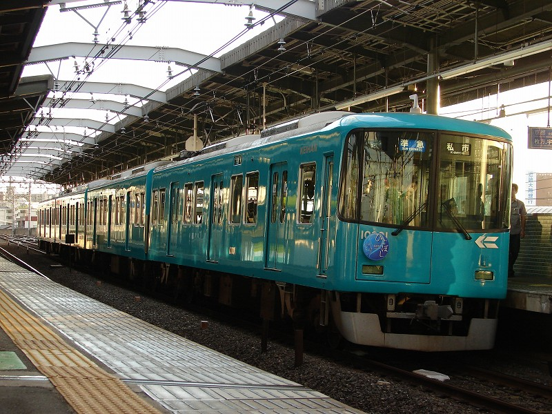 Keihan 10000 series 4-car EMU set 10001 at Kayashima Station on the Keihan Main Line